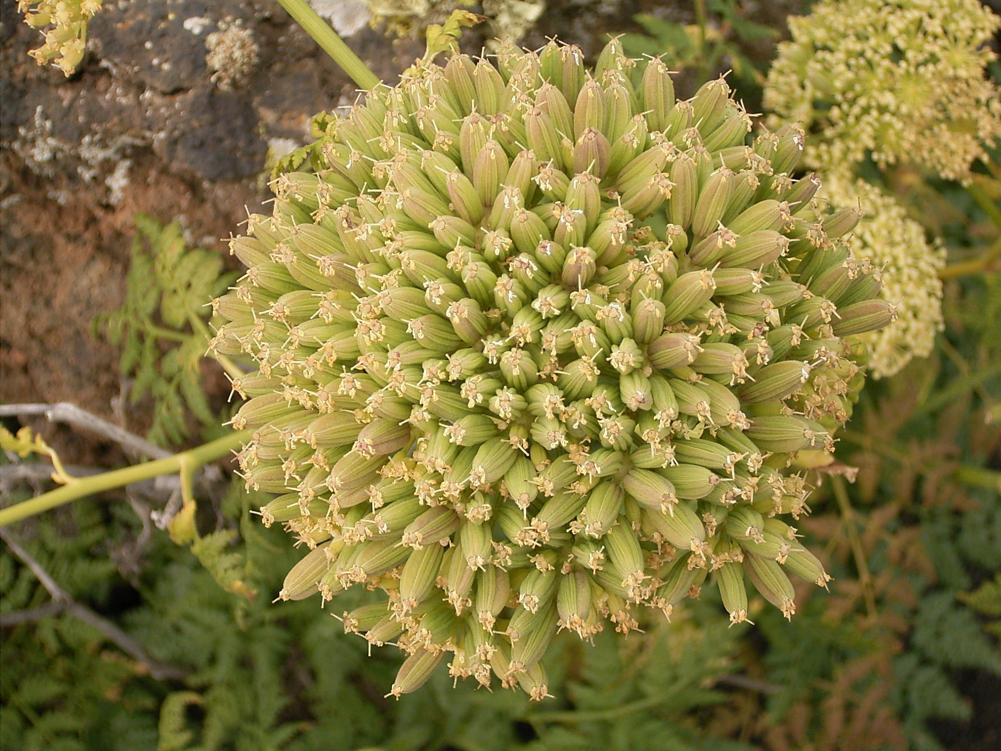 Todaroa aurea growing in Fuencaliente, La Palma, Canary Islands